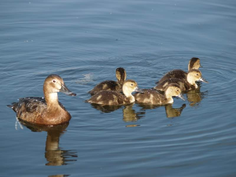 Female Pochard Aythya ferina with young, at Gentofte Sø, Denmark.